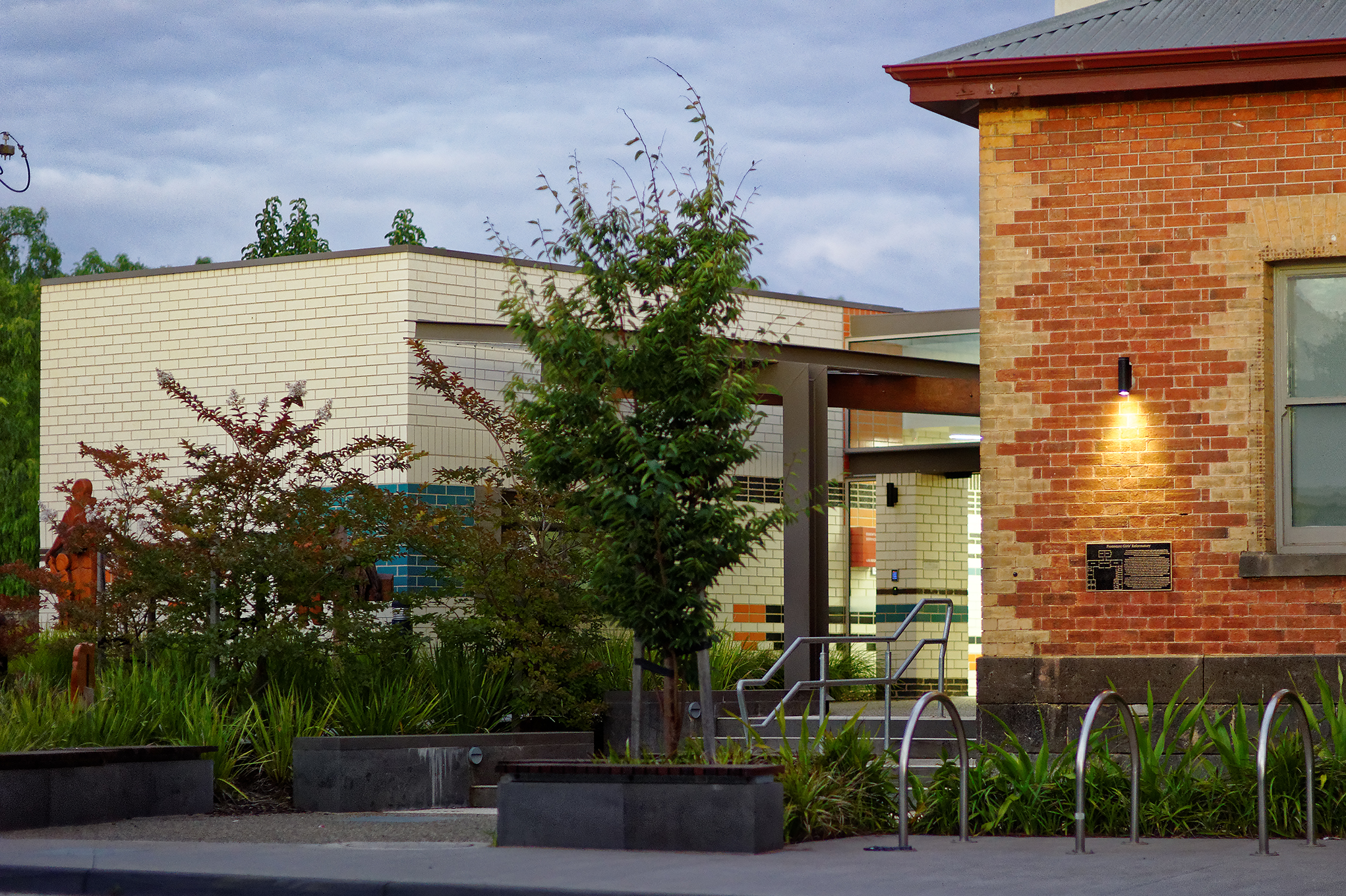 Moreland City Council Maternal and Child Health Centre. Moreland City Council Child Care Centre